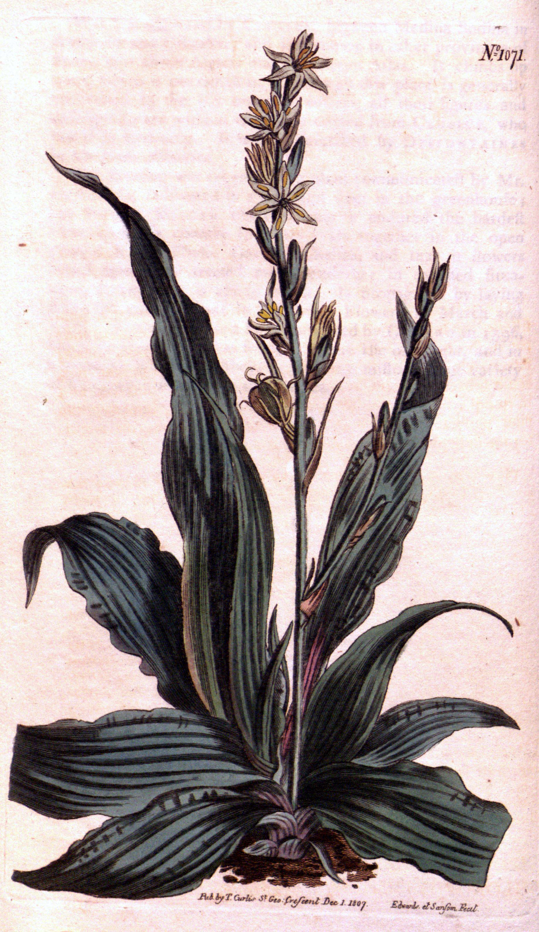 Chlorophytum inornatum